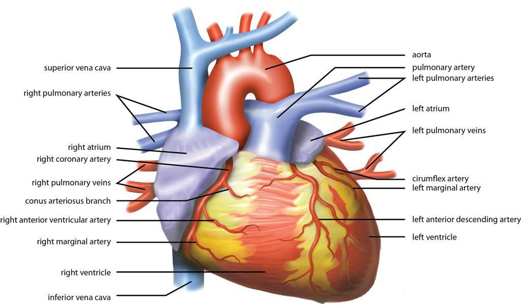 Anatomy of the Human Heart, made by Ties van Brussel